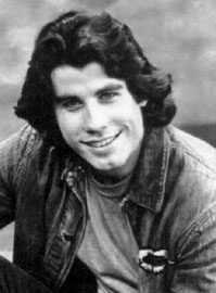 Publicity photo of American actor John Travolta promoting his role on the ABC television series Welcome Back, Kotter.